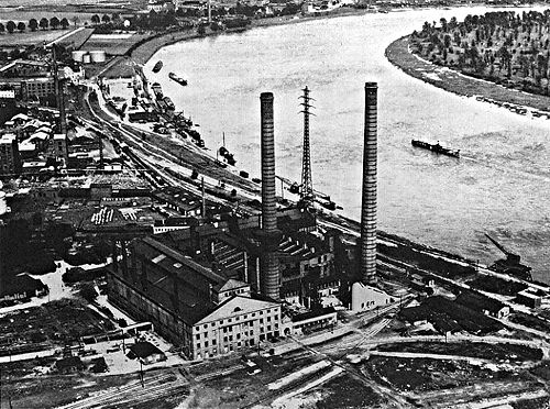 Power plant Reisholz in Düsseldorf, Germany